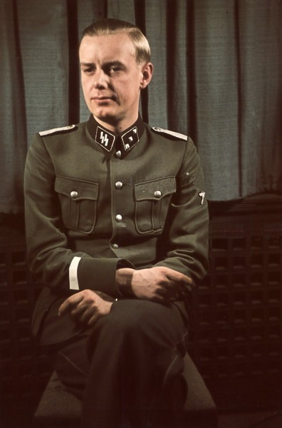 Hans Hermann Junge